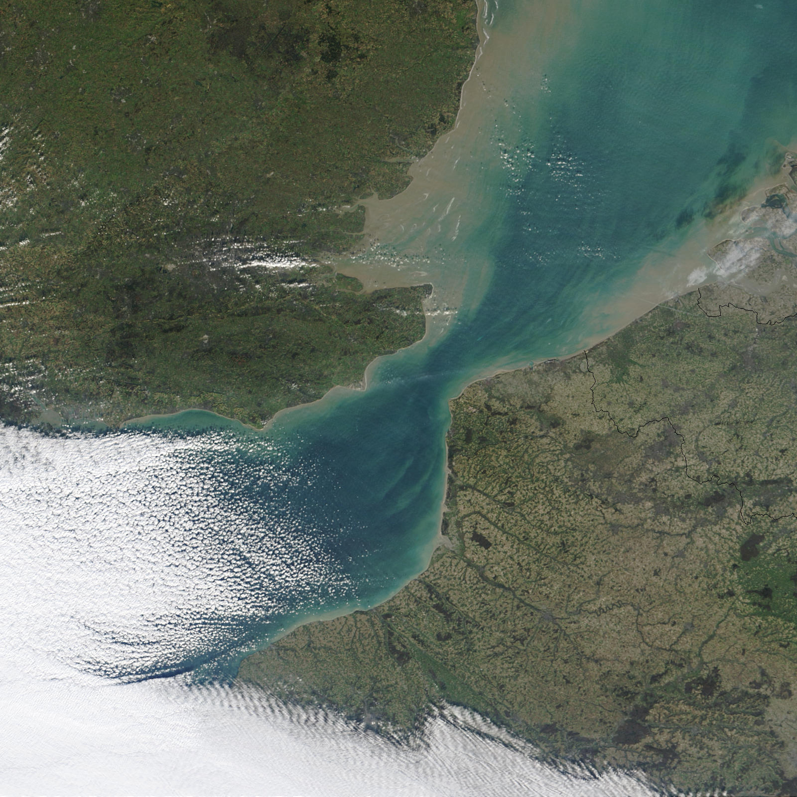 NASA MODIS satellite imagery of the Strait of Dover, the narrowest part of the English Channel.